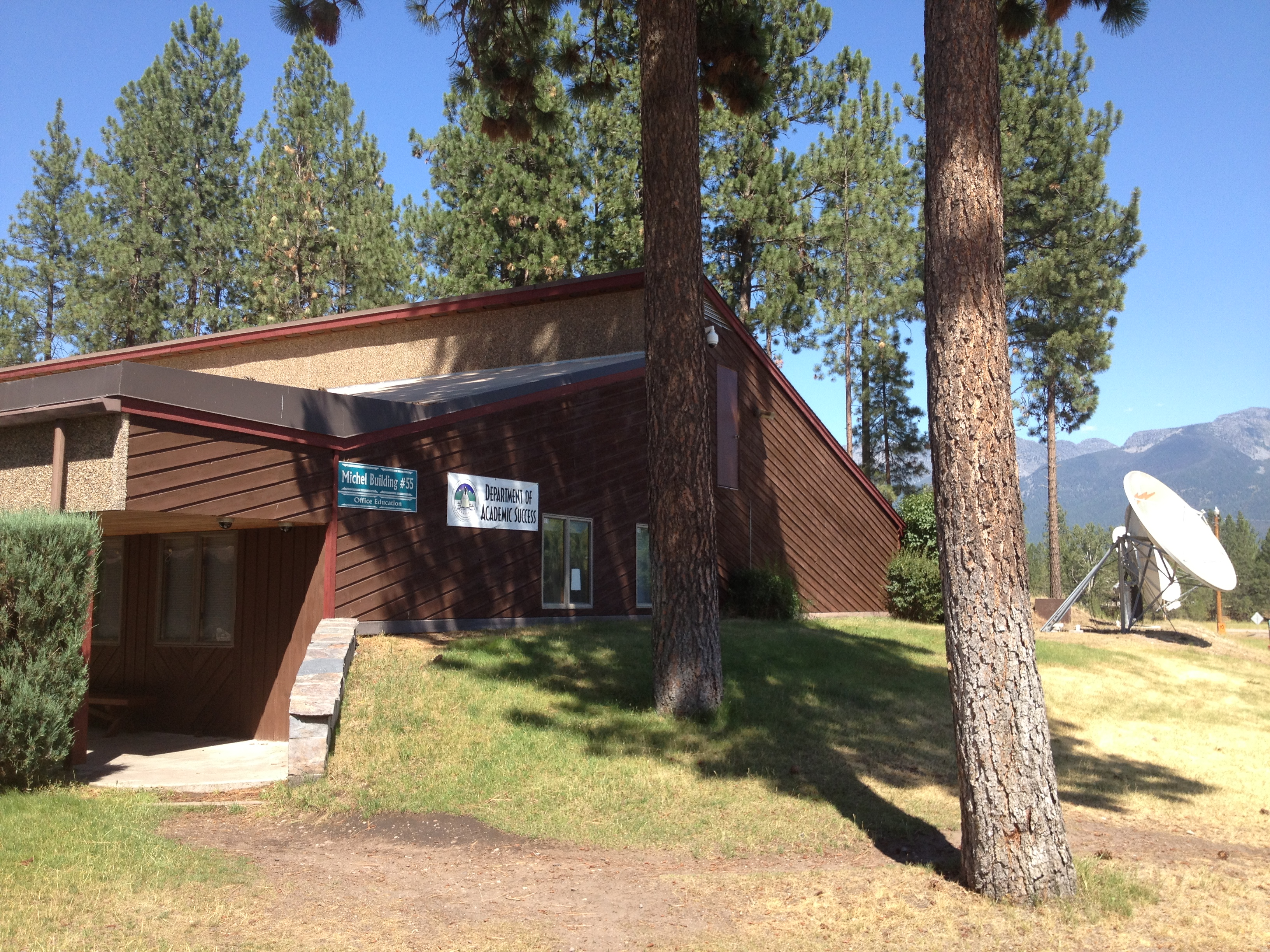 Michel Building at Salish Kootenai College, Pablo, Montana. Photographed July 23, 2013